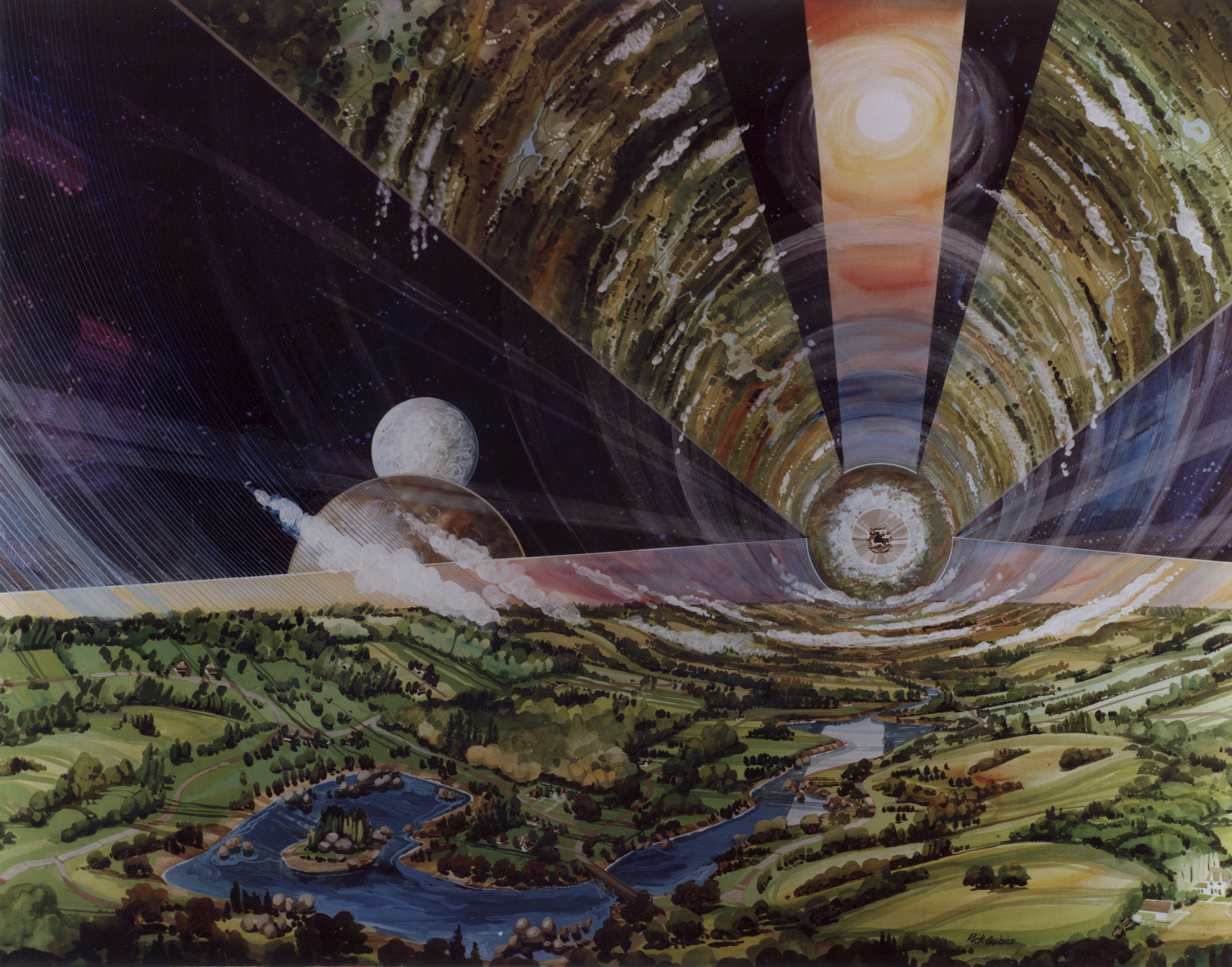 NASA Ames Research Center space colony image from the NASA Ames Research Center